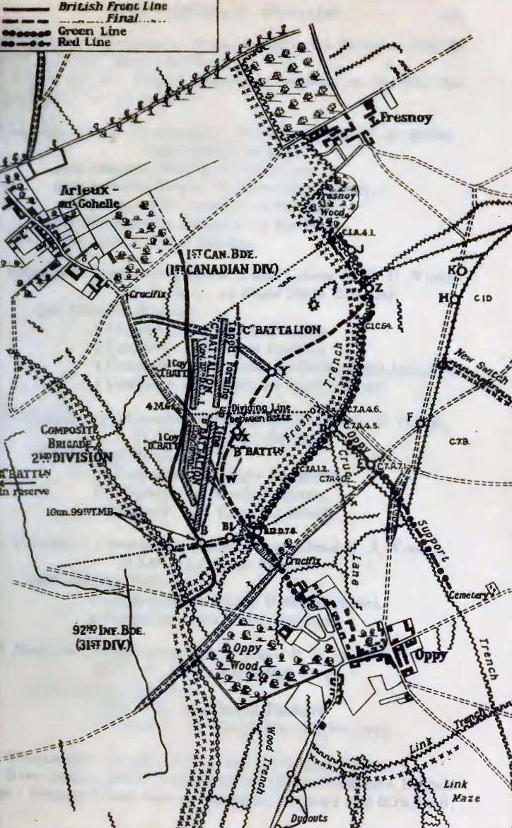 Diagram of the German defences around Oppy Wood, early 1917, showing entrenchments and barbed wire